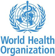 World Health Organization